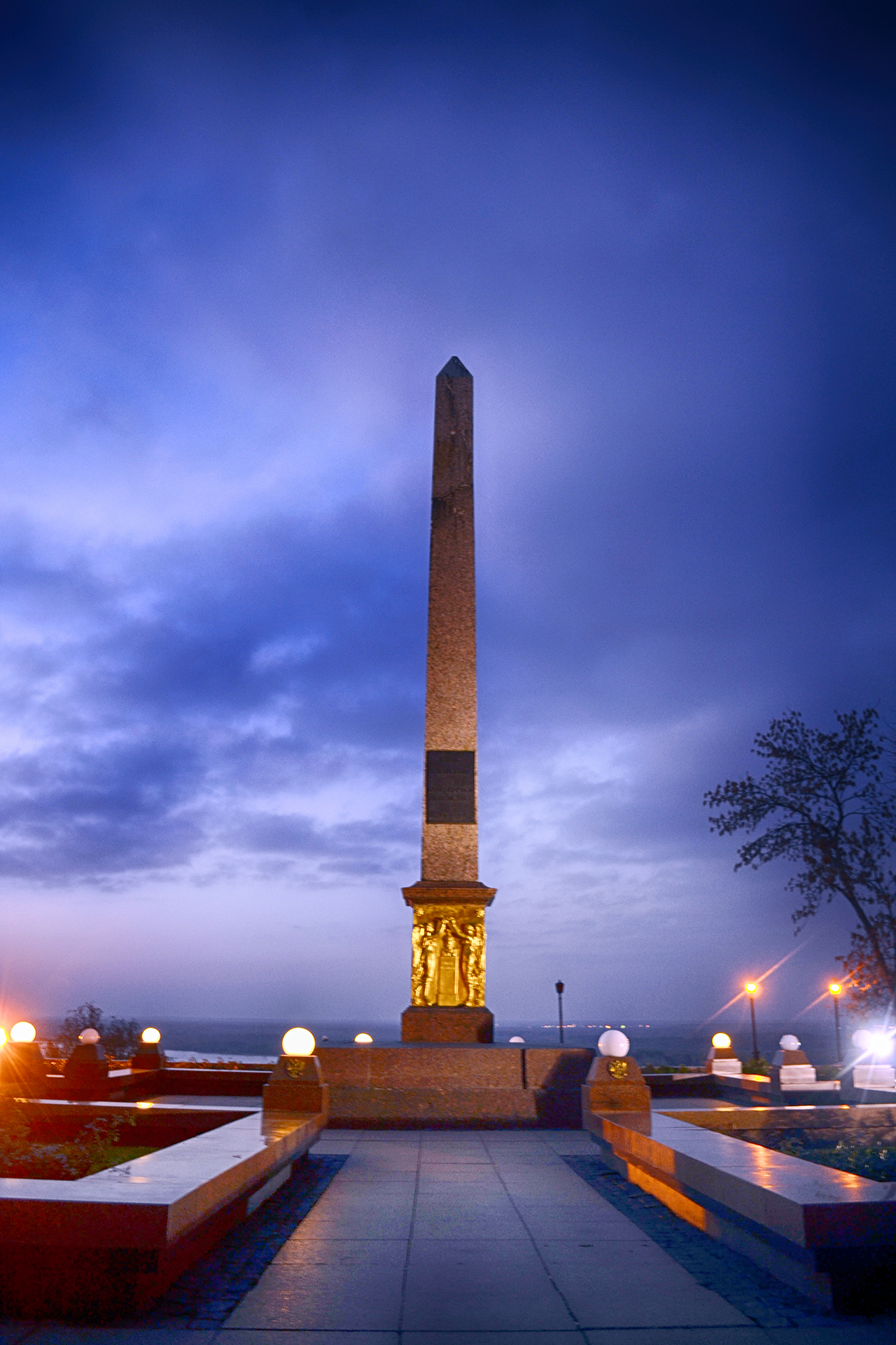 Obelisk to Minin and Pozharsky in Nizhny Novgorod kremlin at evening